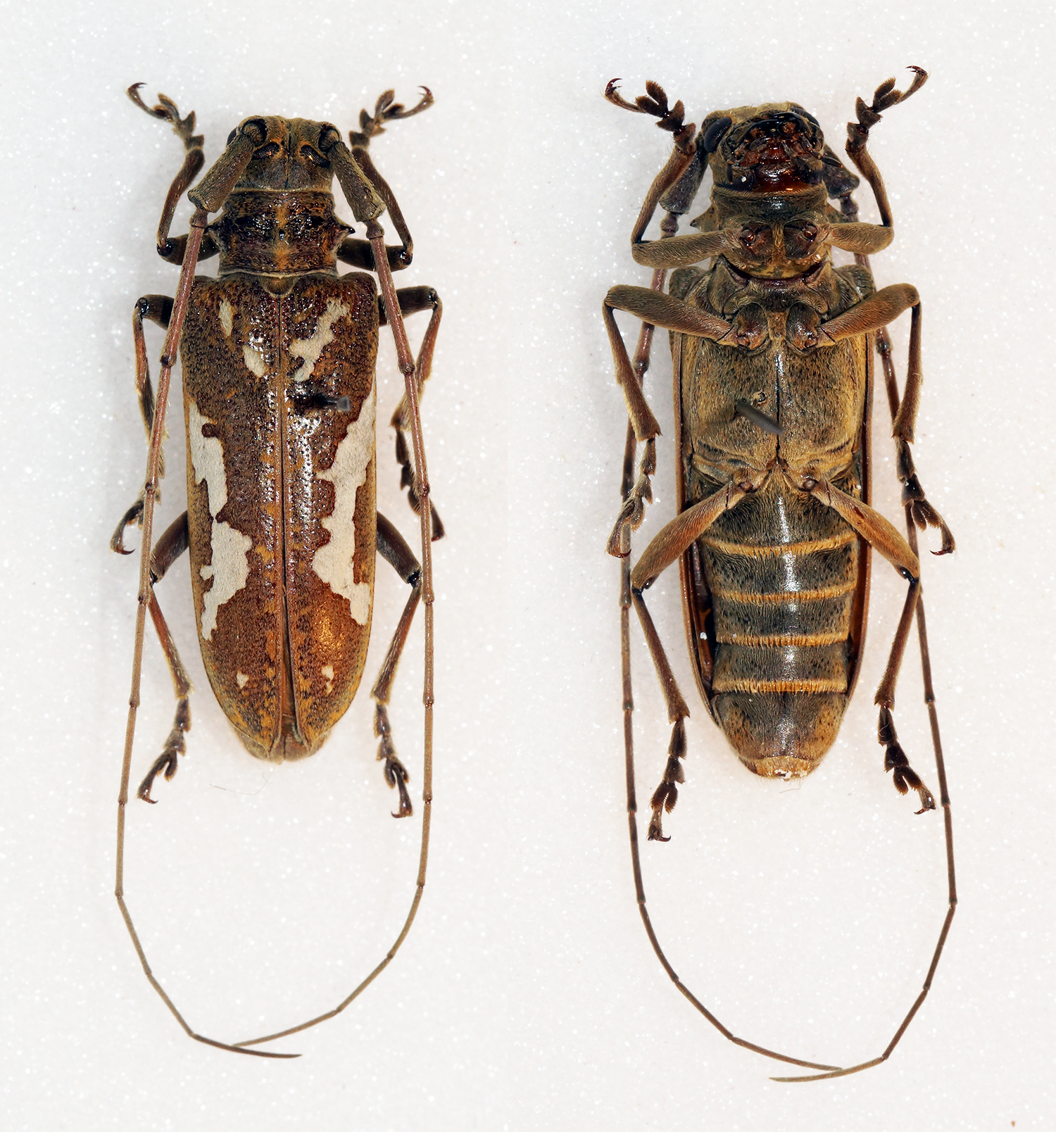 Bates,1880 Sex: Male Data: 22-07-12 - 1.6km SE San Seabastian - Jalisco - Mexico Size: 24mm